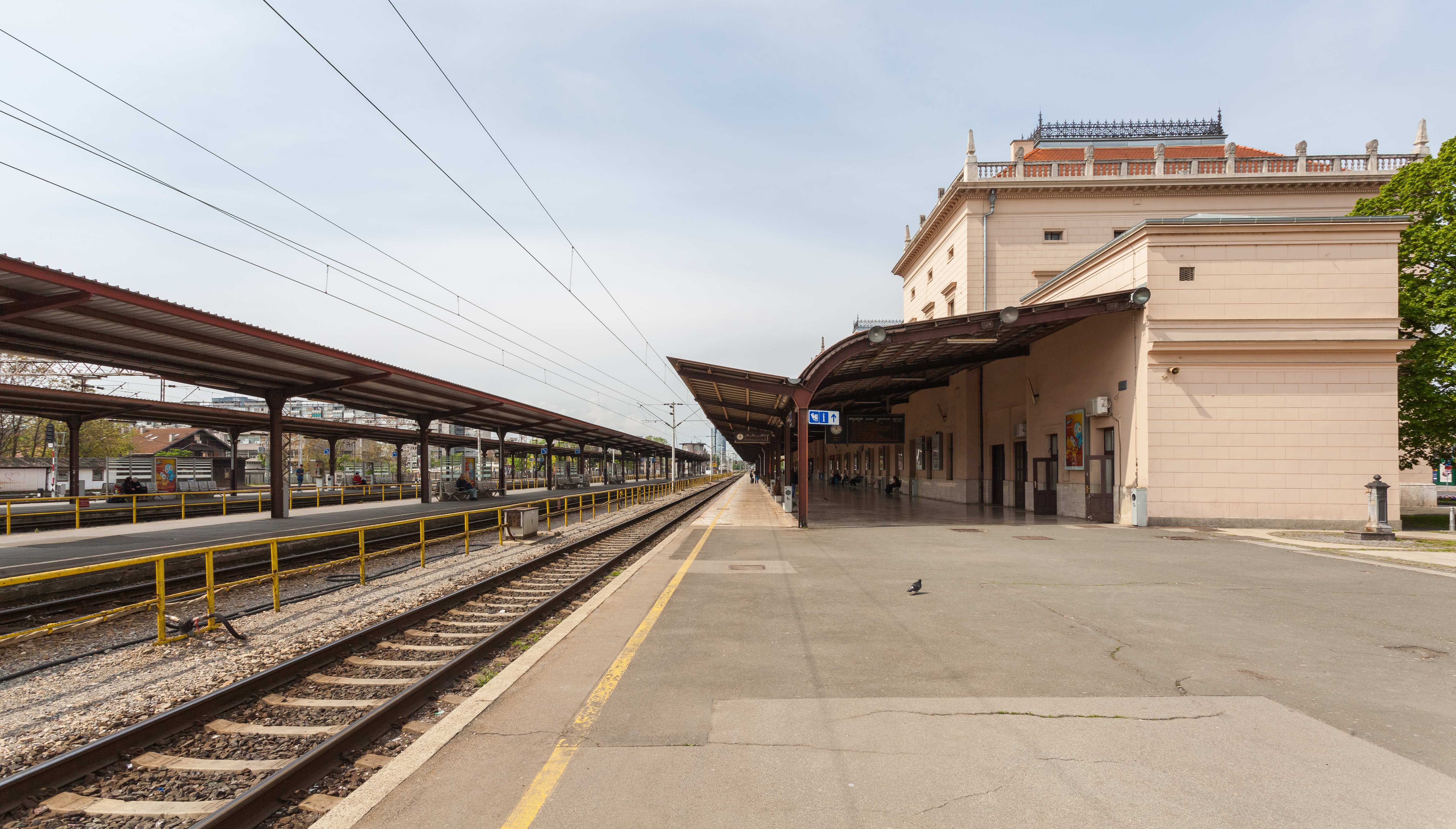 Main Railway Station, Zagreb, Croatia